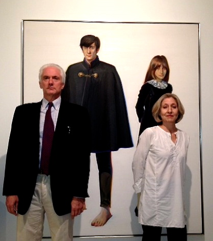 Painting of Amy and Jerrold, featuring Jerry Kaplan.